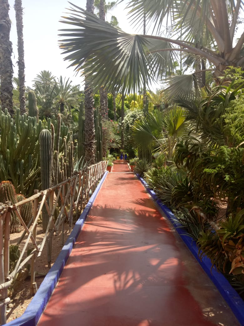 This pictures represents assoul is a village in Morocco in the province of Tinghir 70km from the city Tinghir, capital of it. It is located in the county in the High Atlas. The closest towns to the village of Assol are the town of Er-Rich in the northeast; Goulmima to the southeast. Note this village with the name of Assoul which is also the surname of a very large Morocco family This is an image with the theme "Africa on the Move or Transport" from: Morocco